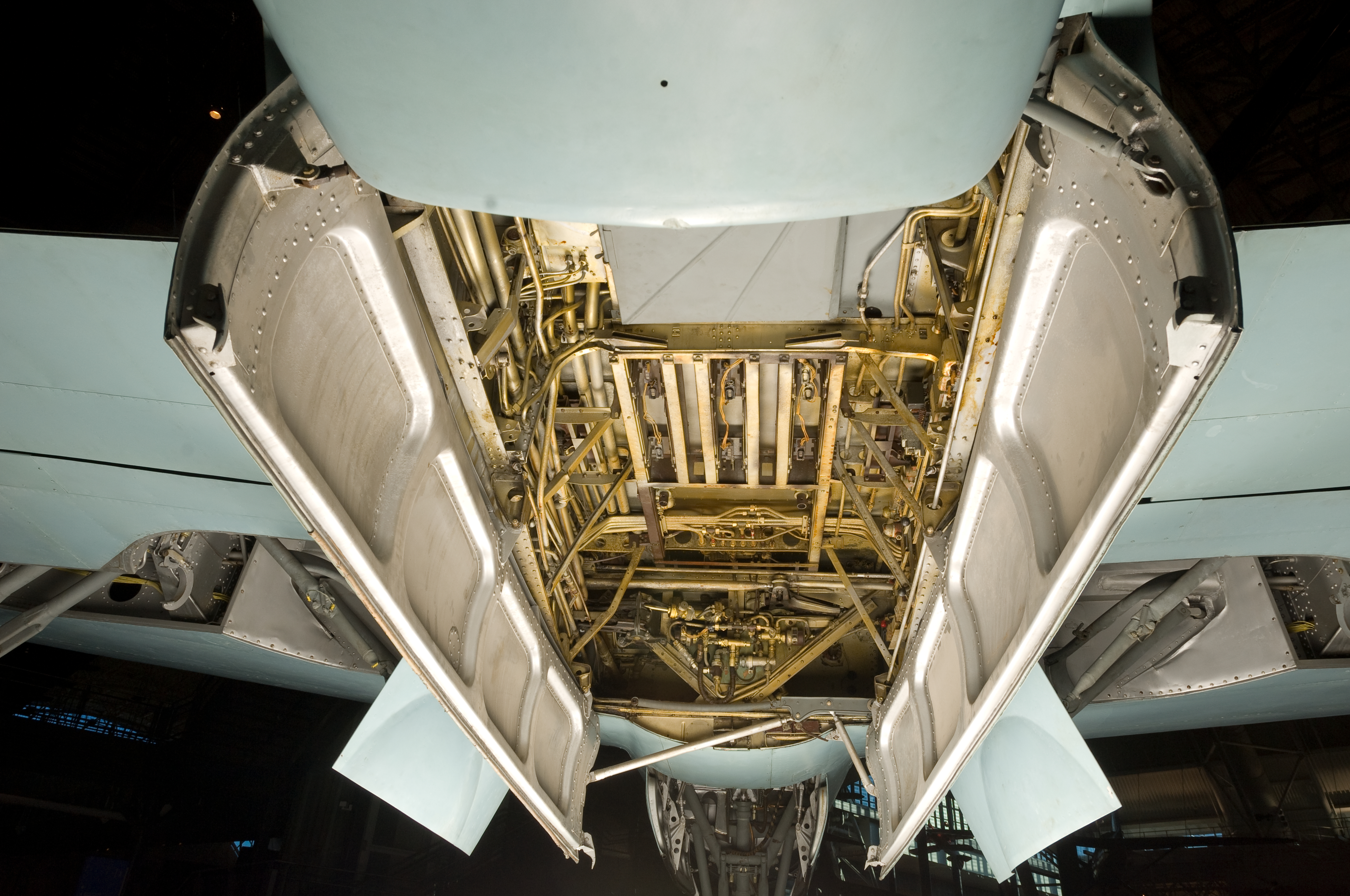 Dornier Do 335 Bombbay[DornierDo335Bombbay-022] [NASM2019-00575]